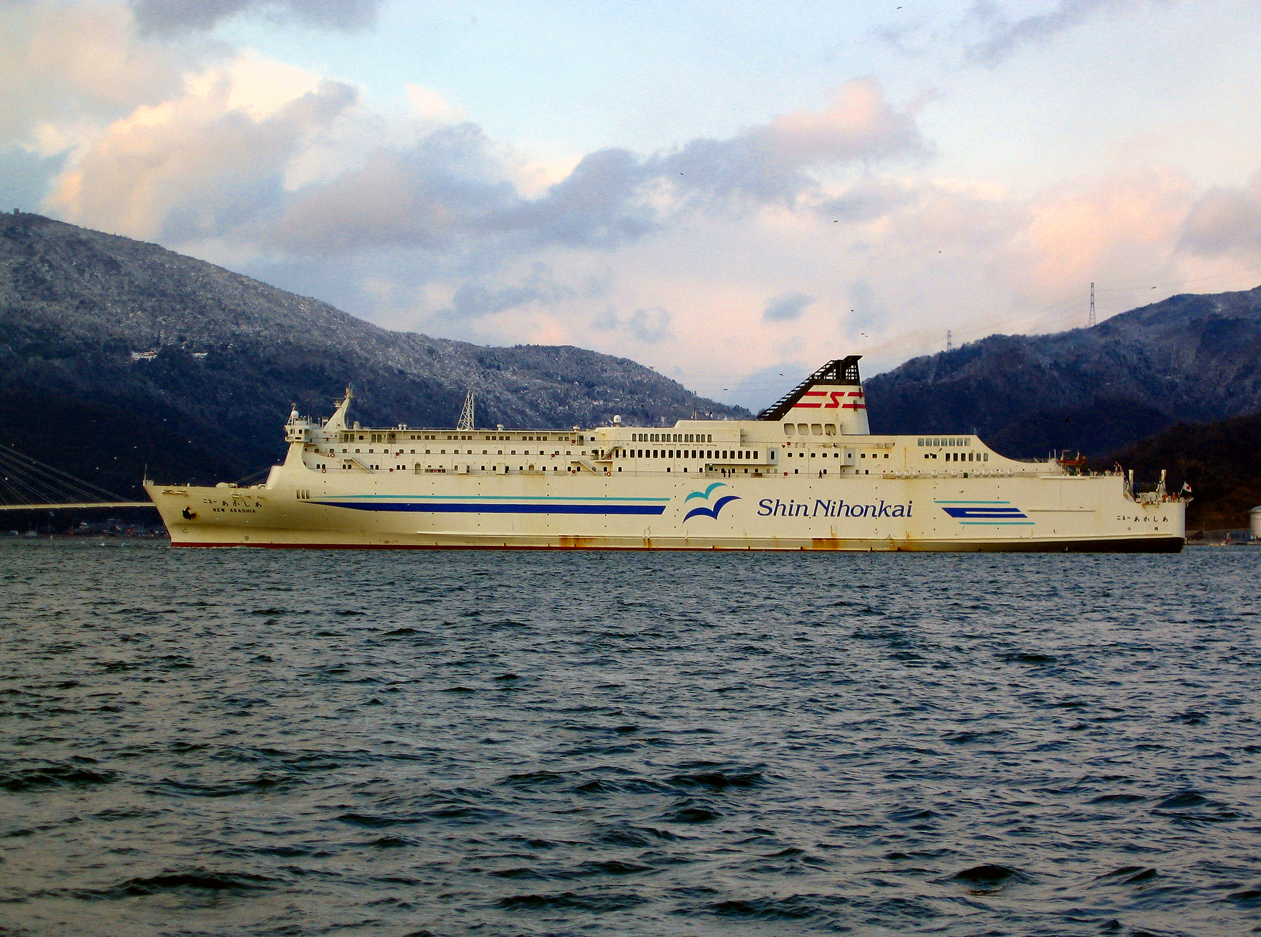 This photograph is New Akashia which the SHIN NIHONKAI ferry owned.It returned to private life and was transferred to the shipping company of the Philippines now. IMO number 8712635 Renamed 19.12.2004 Ionian Glory Flag; Saint Vincent and the Grenadines Renamed 21.08.2005 Ionian Queen Flag: Cyprus